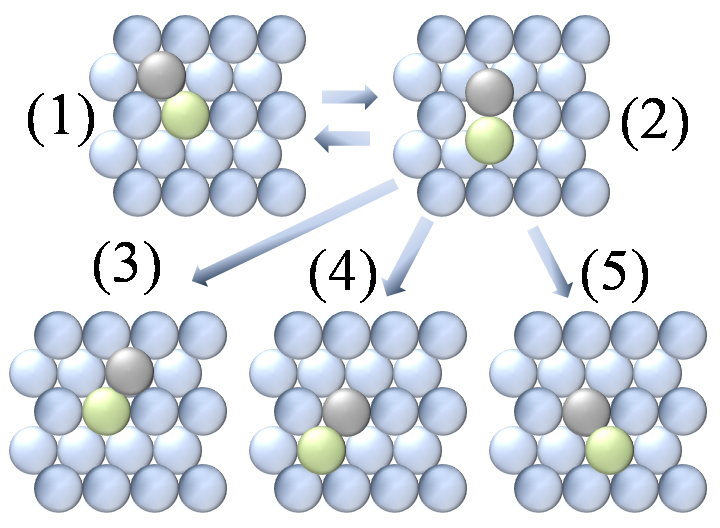 Diagram of cross-channel diffusion involving an adatom (grey) on a channeled surface (such as fcc (110), blue plus highlighted green atom). 1) Initial configuration; 2) "Dumbbell" intermediate configuration. Final displacement may include 3, 4, 5, or even a return to the initial configuration. Not to scale. Prepared using Microsoft Powerpoint 2007.